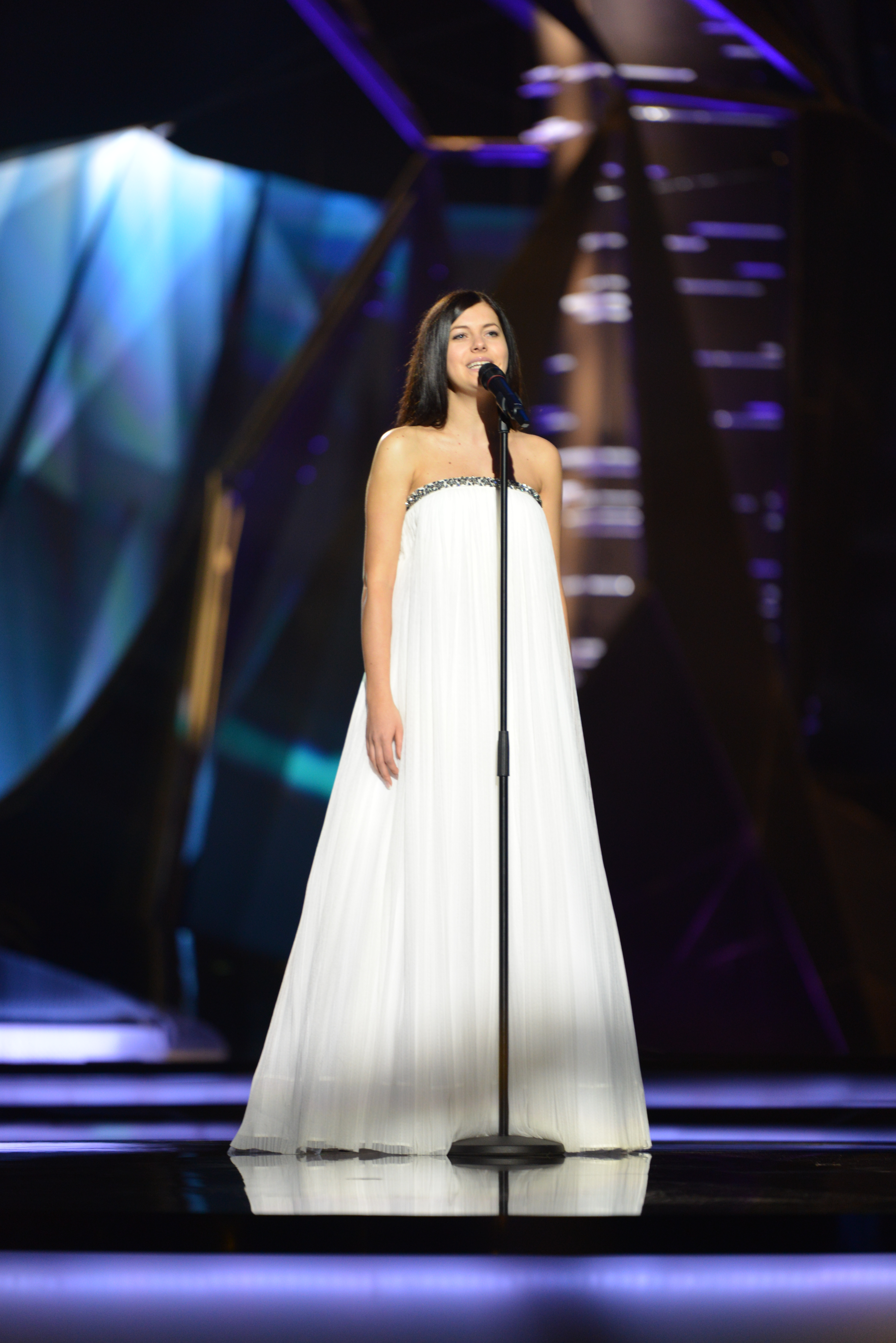 Birgit Õigemeel representing Estonia with the song "Et uus saaks alguse" during the first dress rehearsal of the first semi final of the Eurovision Song Contest 2013 Malmö. (Help translate this text)